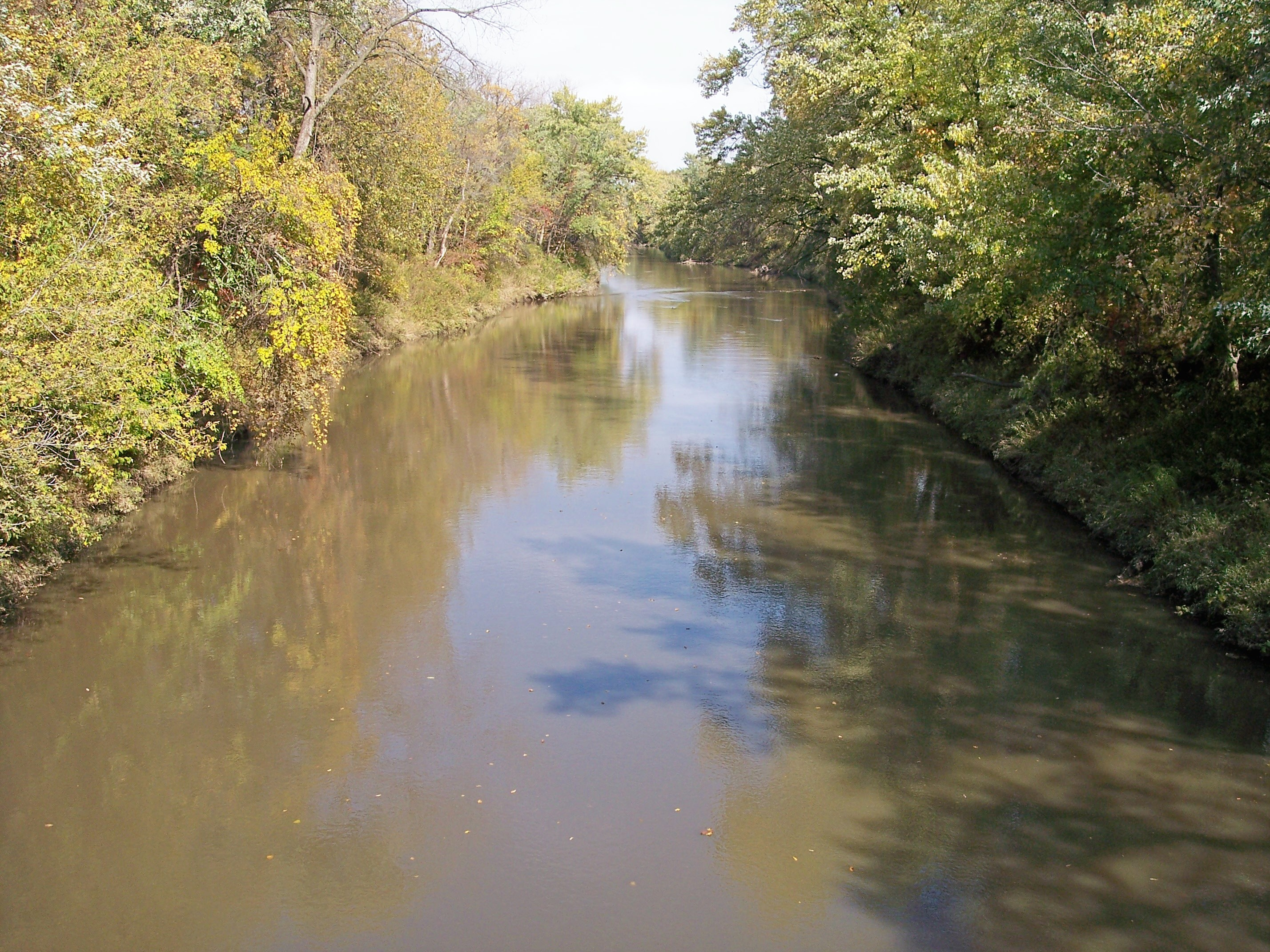 The Middle River as viewed downstream from the Summerset Trail in Warren County, Iowa, between the towns of Indianola and Carlisle